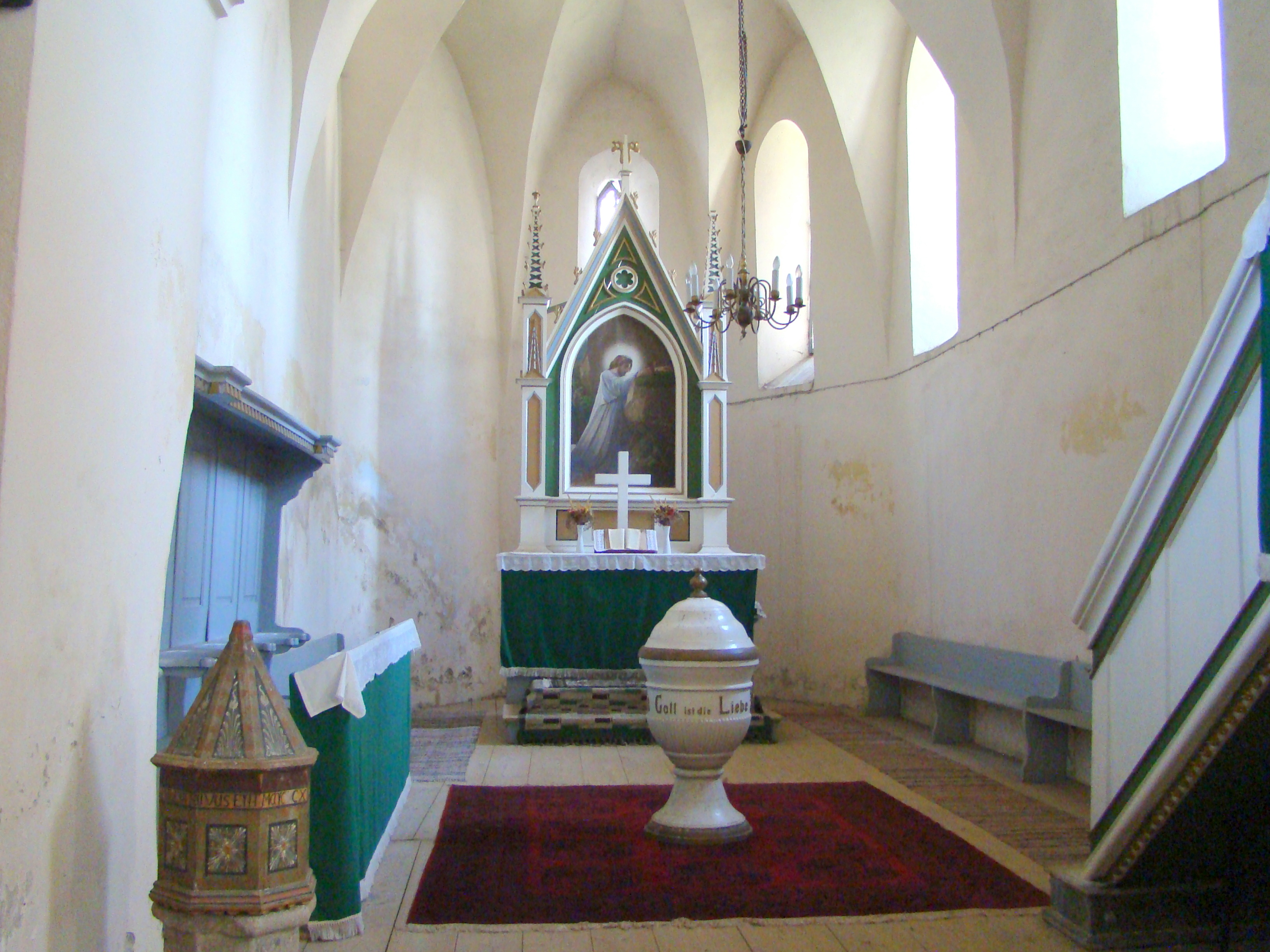 Lutheran church in Daneș, Mureș county, Romania